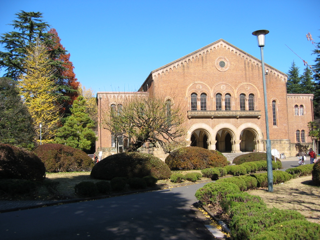 Kanematsu Hall in Kunitachi campus of Hitotsubashi university, Tokyo, Japan